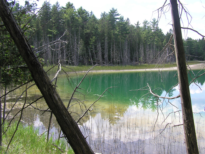 McGinnis Lake